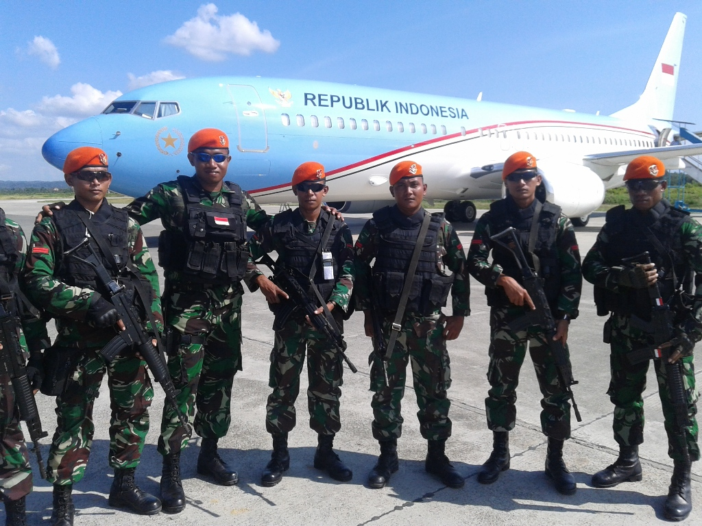 Indonesian Air Force Paskhas commandos